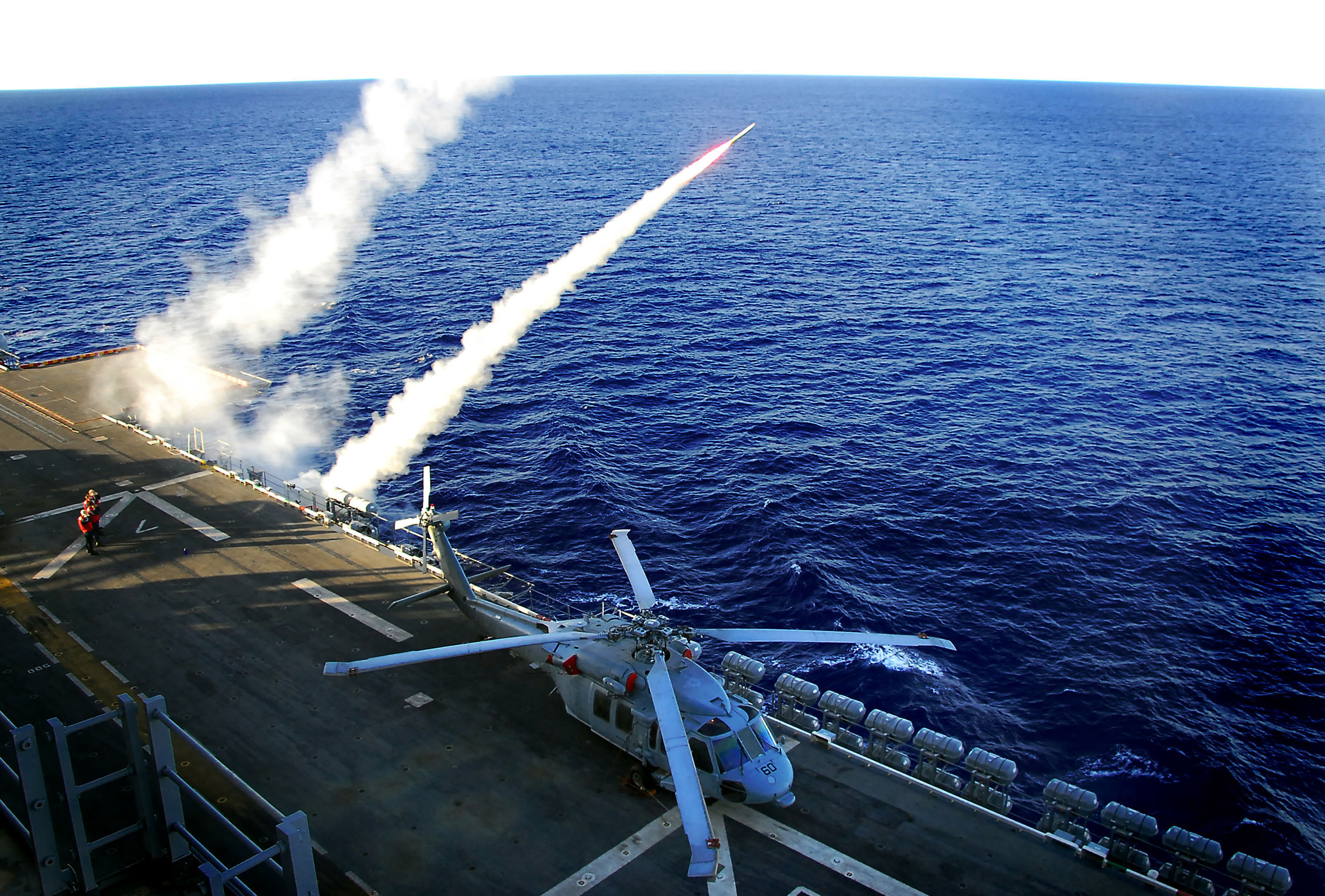 Super rapid bloom off board countermeasures (SRBOC) rockets launch from the amphibious assault ship USS Tarawa (LHA 1) during a test of the ship's anti-missile defense system.